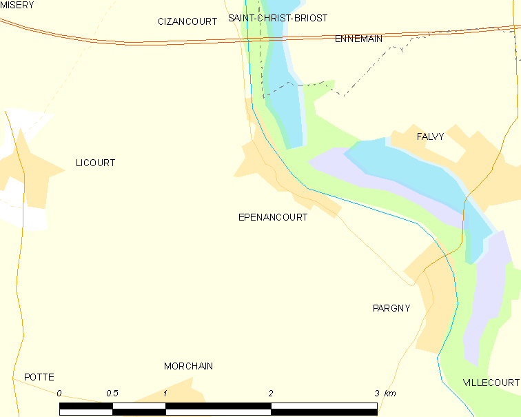 Map of French municipality Épénancourt